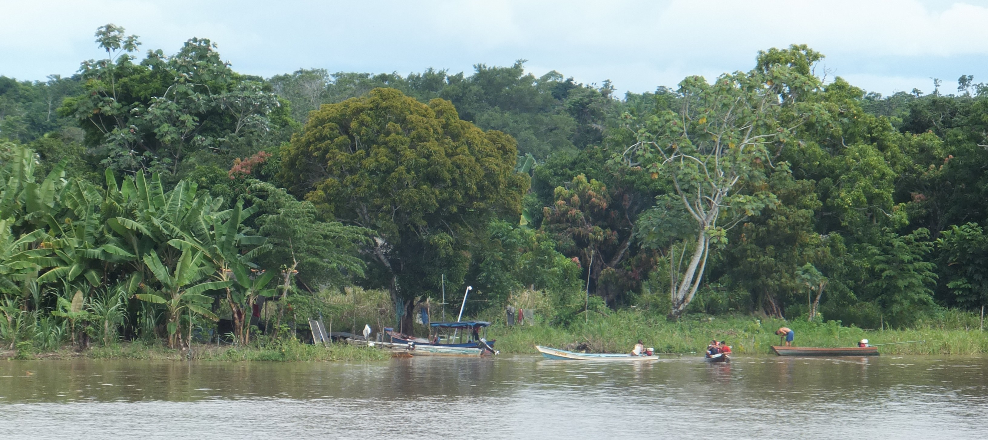 Along the Amazon river between Santarem and Monte Alegre.